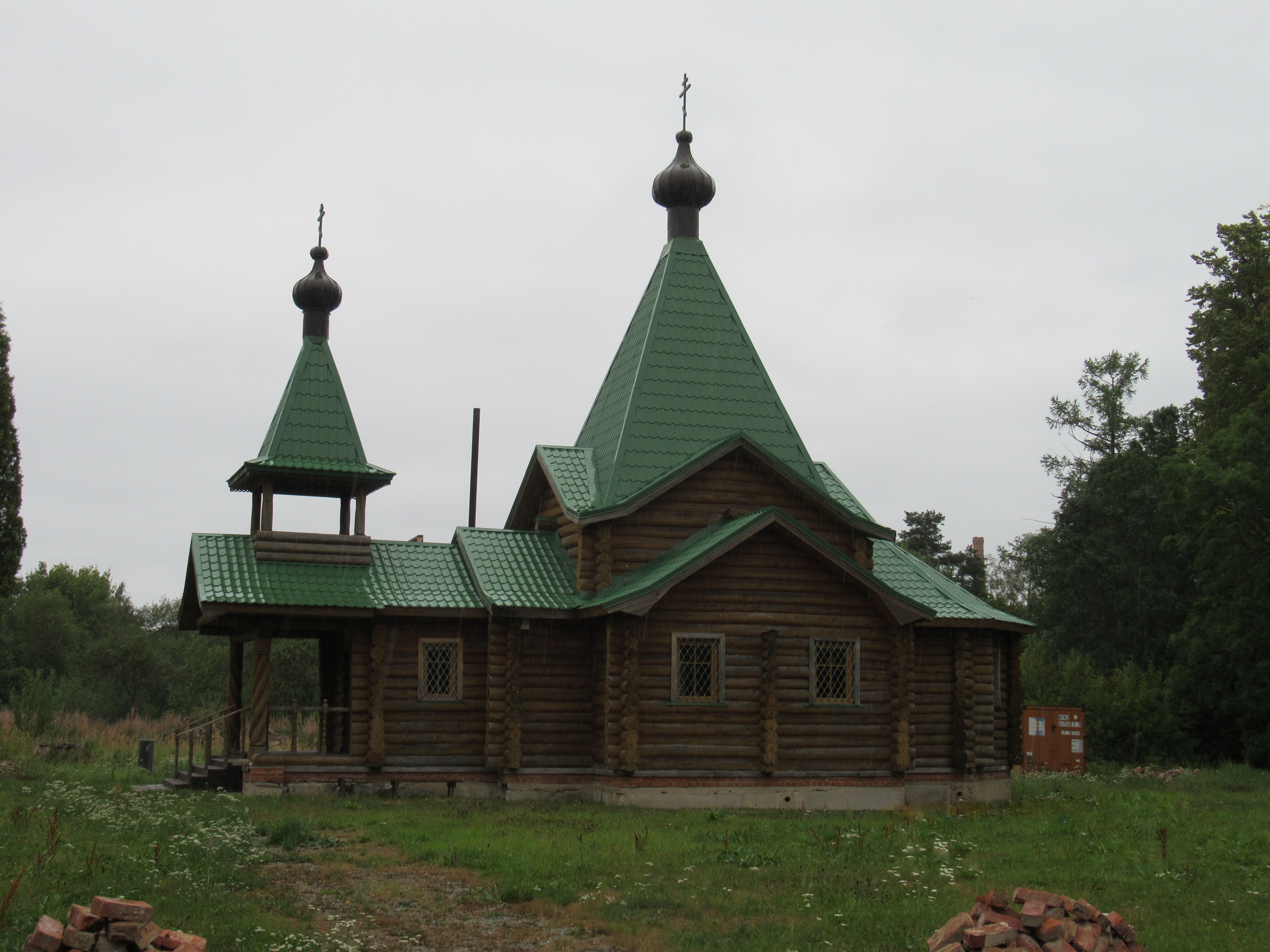 Aseri ortodox church